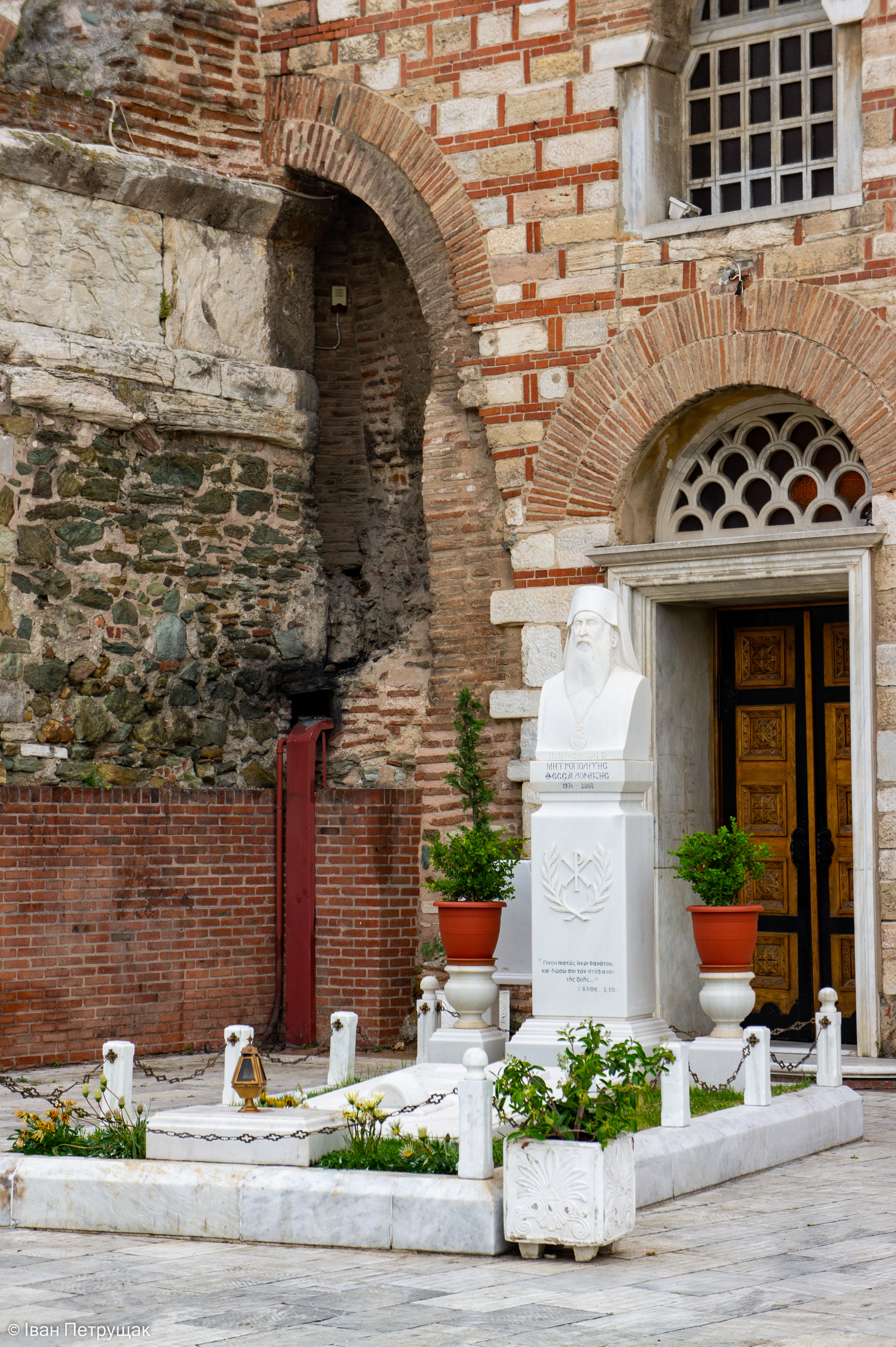 Пам'ятник митрополиту Фесалонік